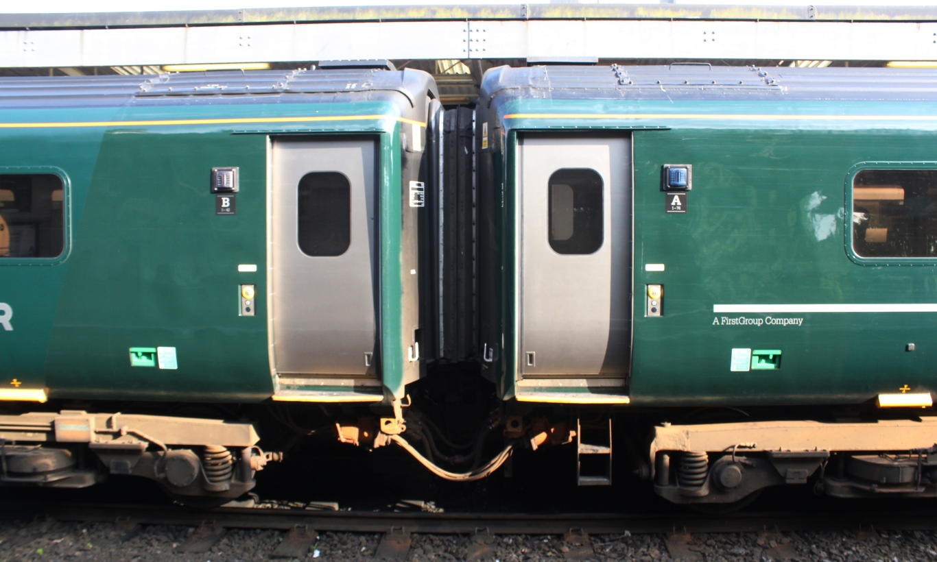 Great Western Railway mark 3 coaches fitted with new power doors. On the left is Trailer Standard 48111 and on the right Trailer Guard Standard 49101.